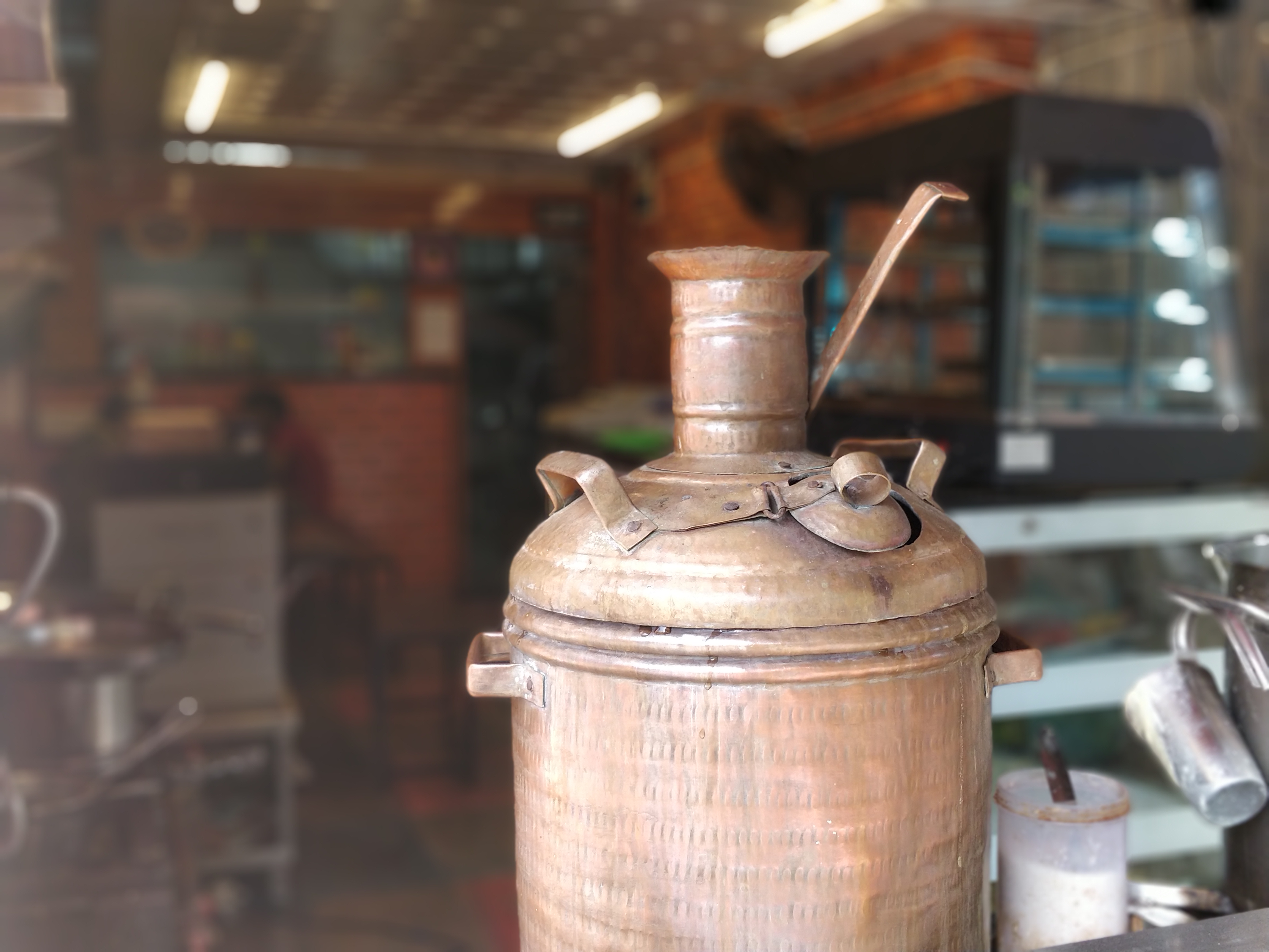 This is a Samovar (a tea boiler of Russian origin). This style is different from what's found in Russia and elsewhere. It matches in style/design with what's found across South India and Sri Lanka.